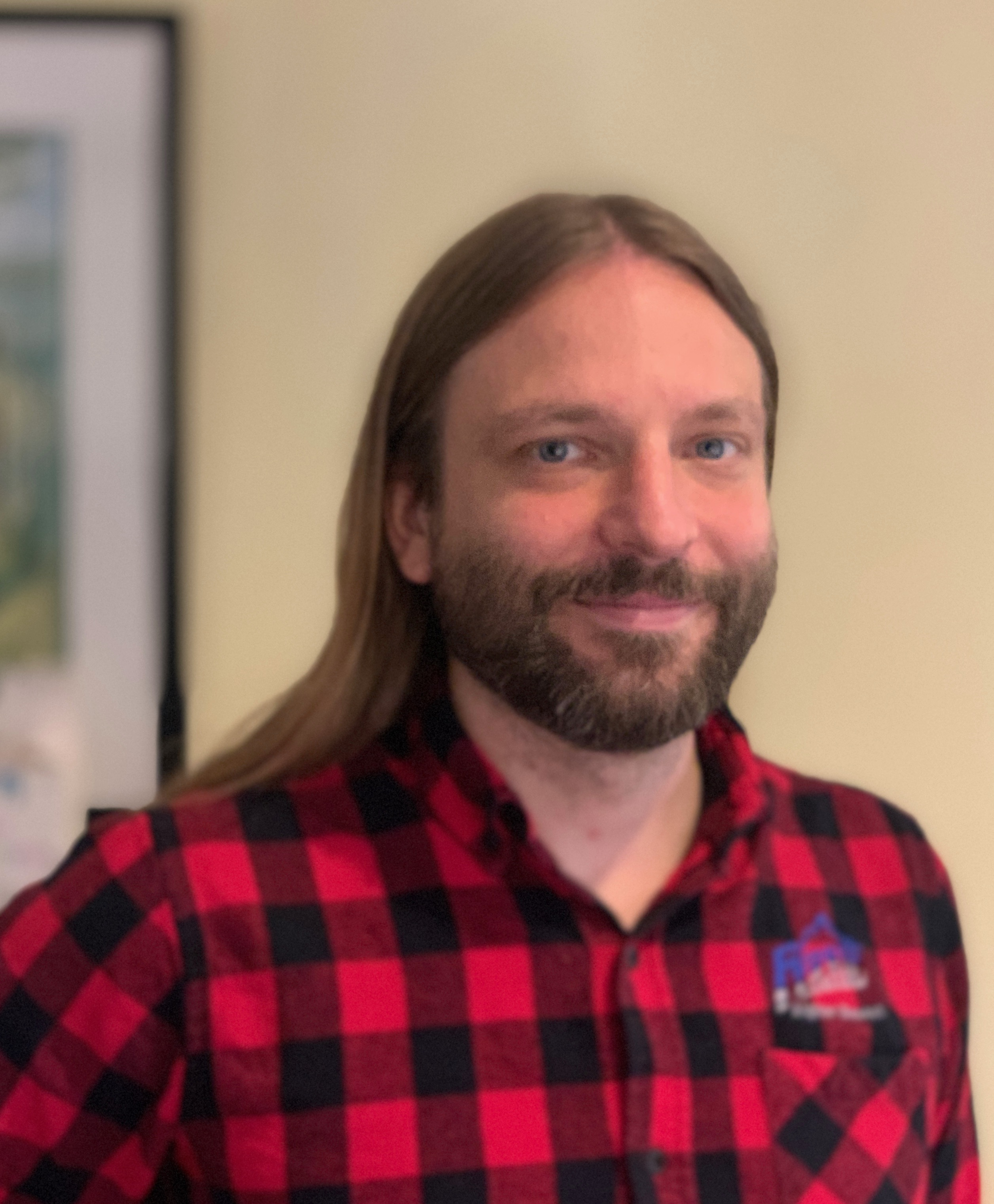 A head and shoulders photograph of Blaine Cook